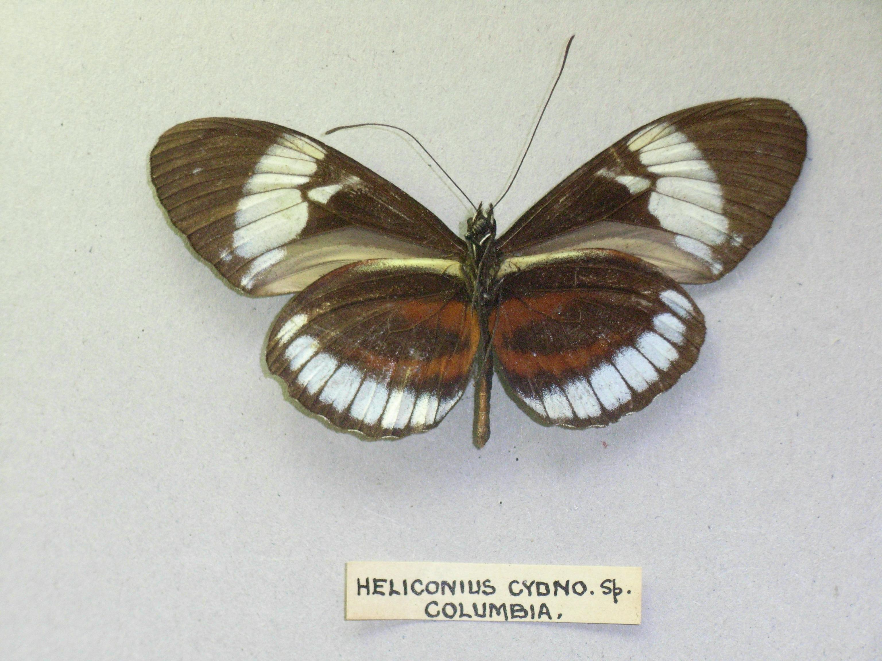 Heliconius cydno:Heliconiinae:Nymphalidae